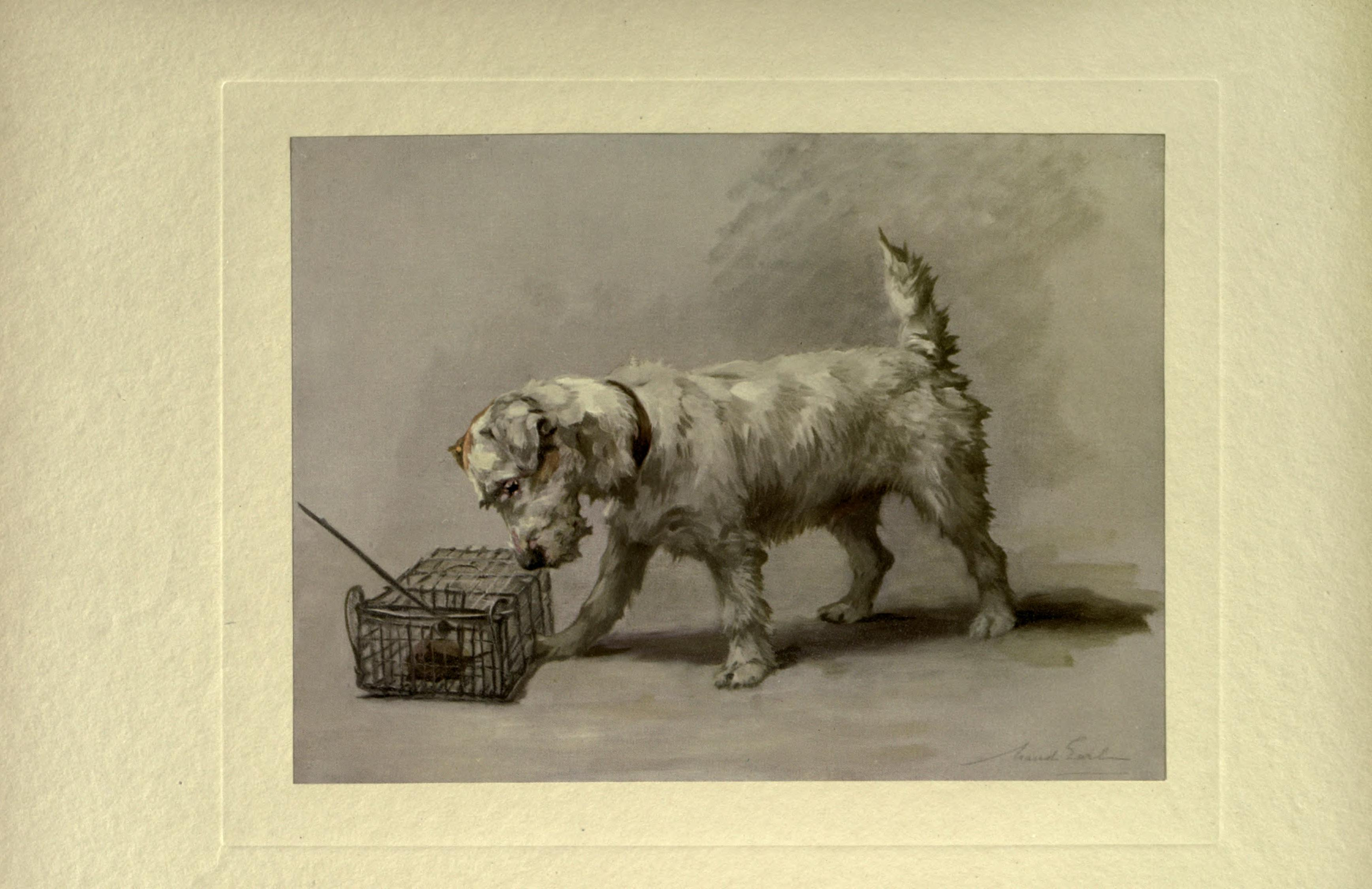 The power of the dog / described by A. Croxton Smith ; twenty plates in colour by Maud Earl.